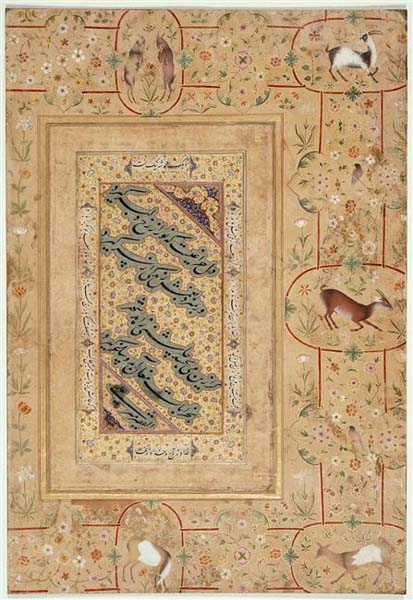 This is a sample of the work of the 16th century calligrapher Mir Ali Heravi held at the Louvre Museum.